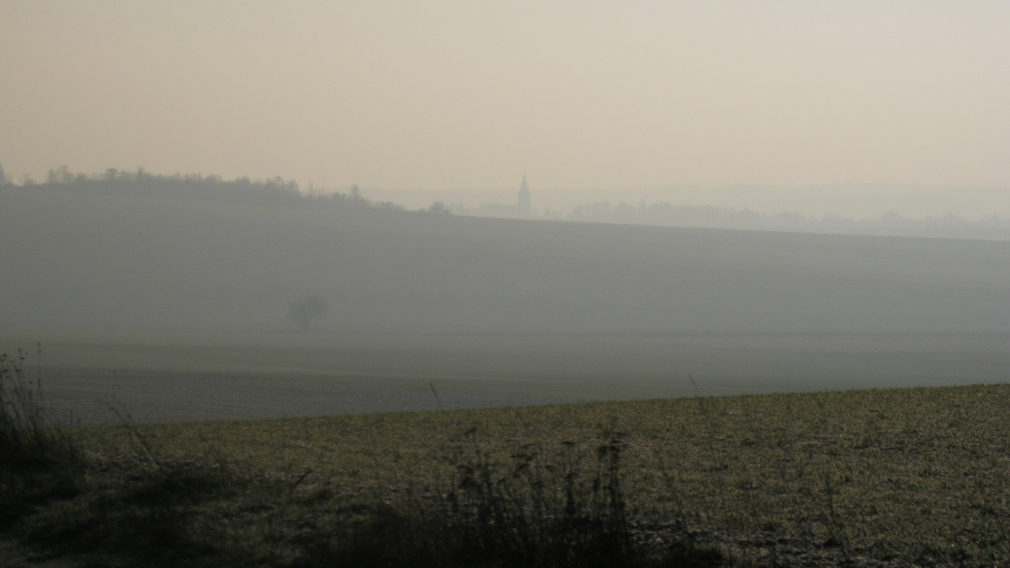 The bell tower of Mesnil-Saint-Loup through the mist (January 2020)